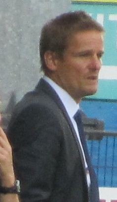 Neal Ardley.